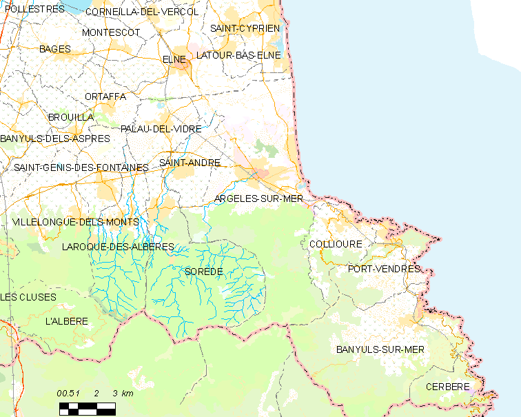 Map of French municipality